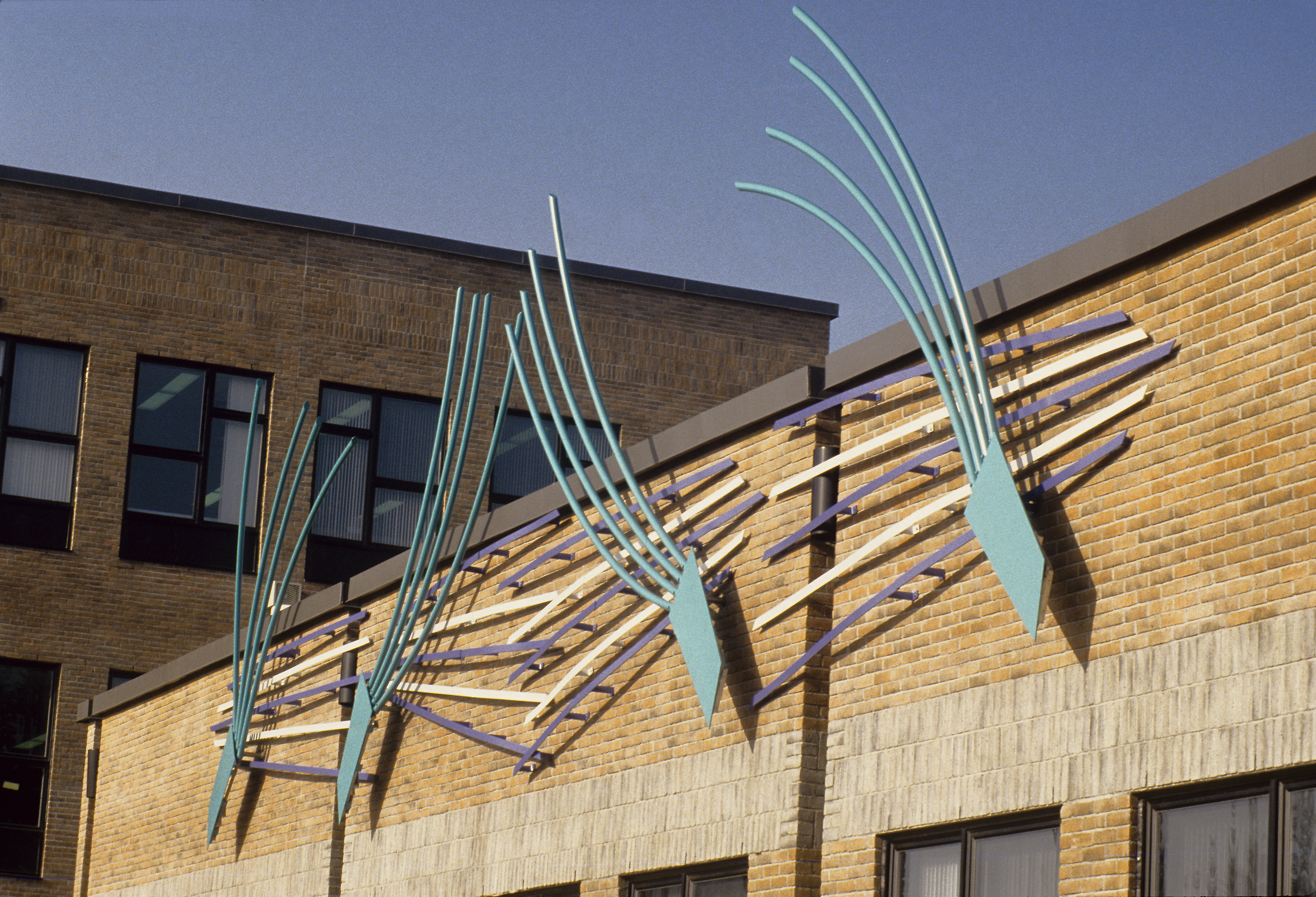 Artist Joëlle Morosoli's Work